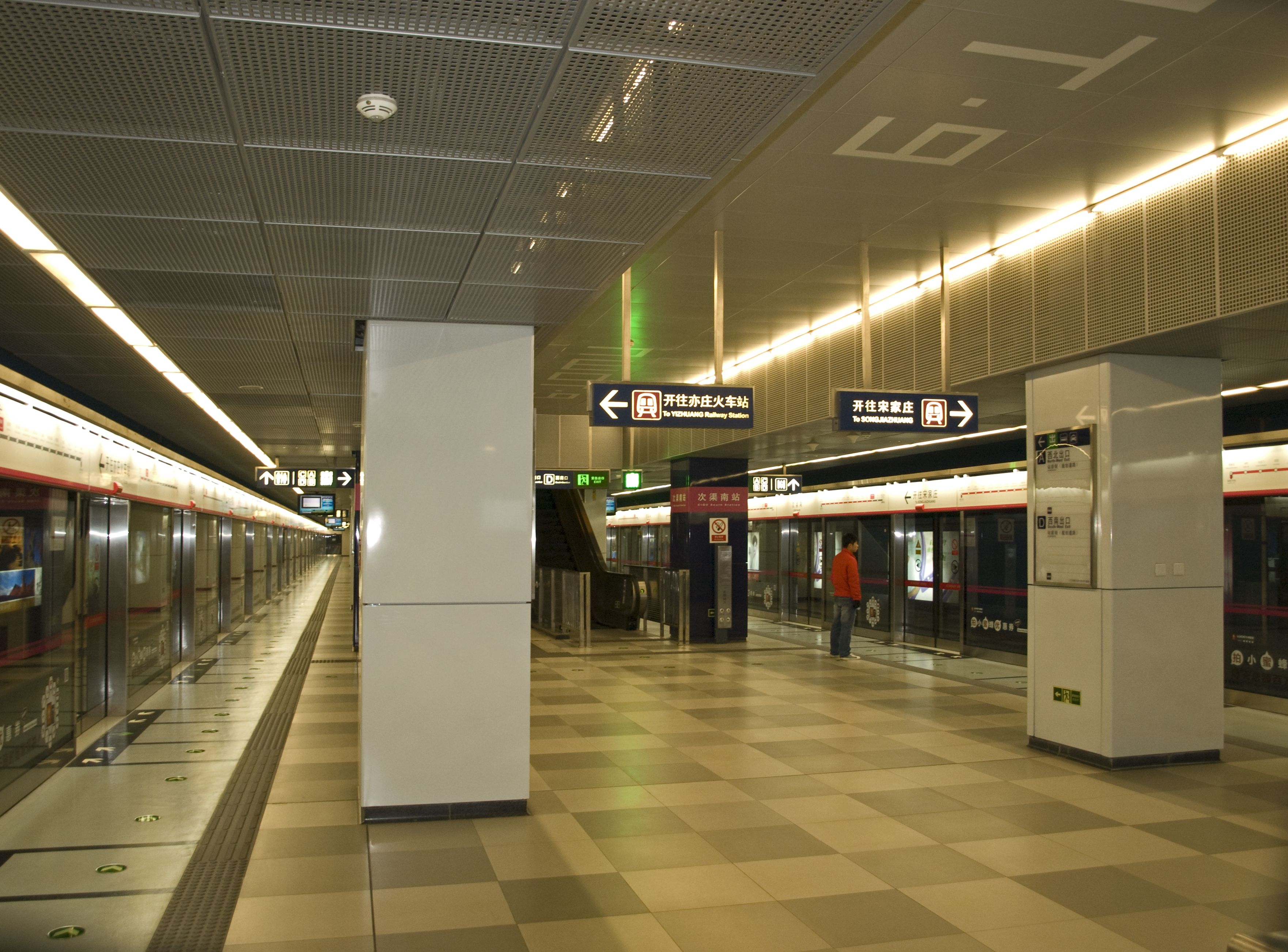 Ciqu South station, Beijing Subway